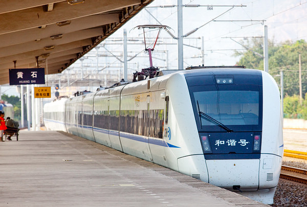 CRH into Huangshi Station 1 site